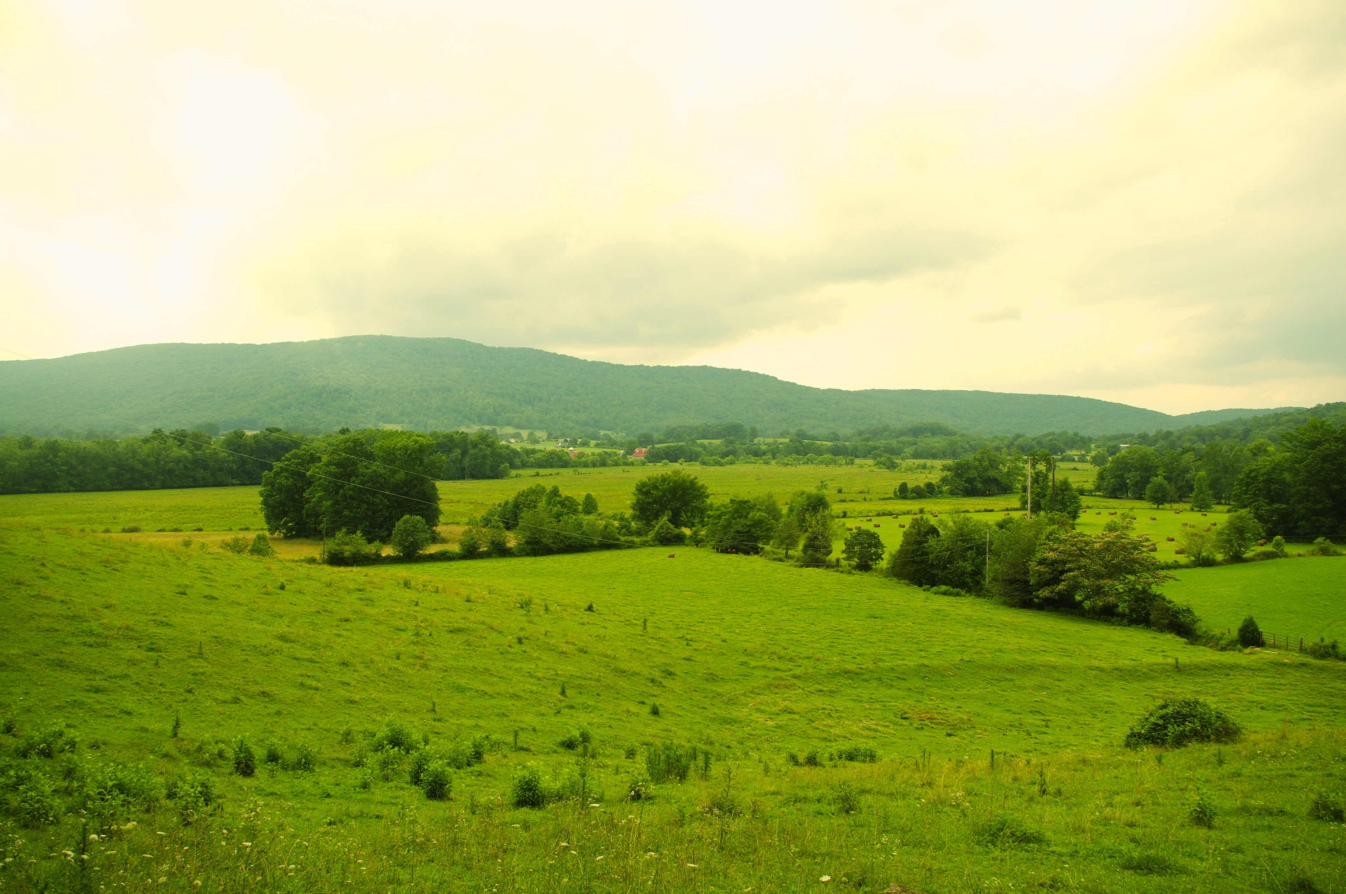 Grassy Cove in Cumberland County, Tennessee, United States, viewed from Little Cove Road. Brady Mountain spans the horizon.